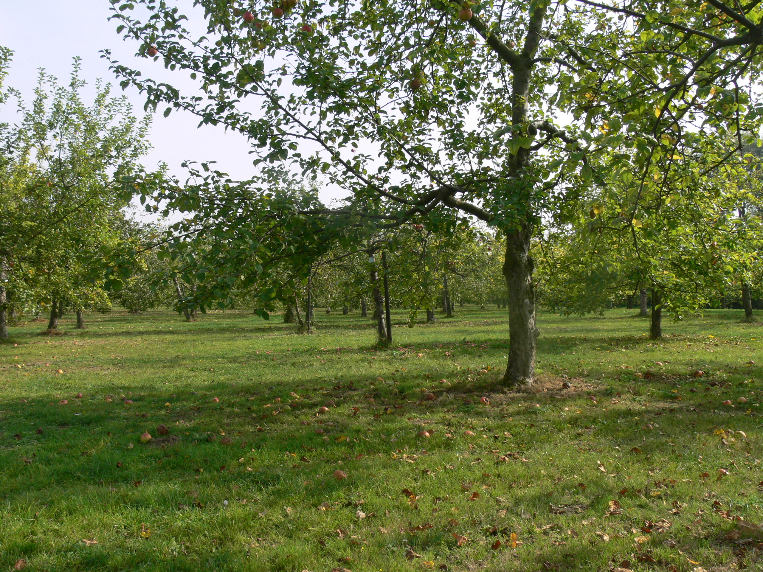 conservatory orchad for old apple varieties